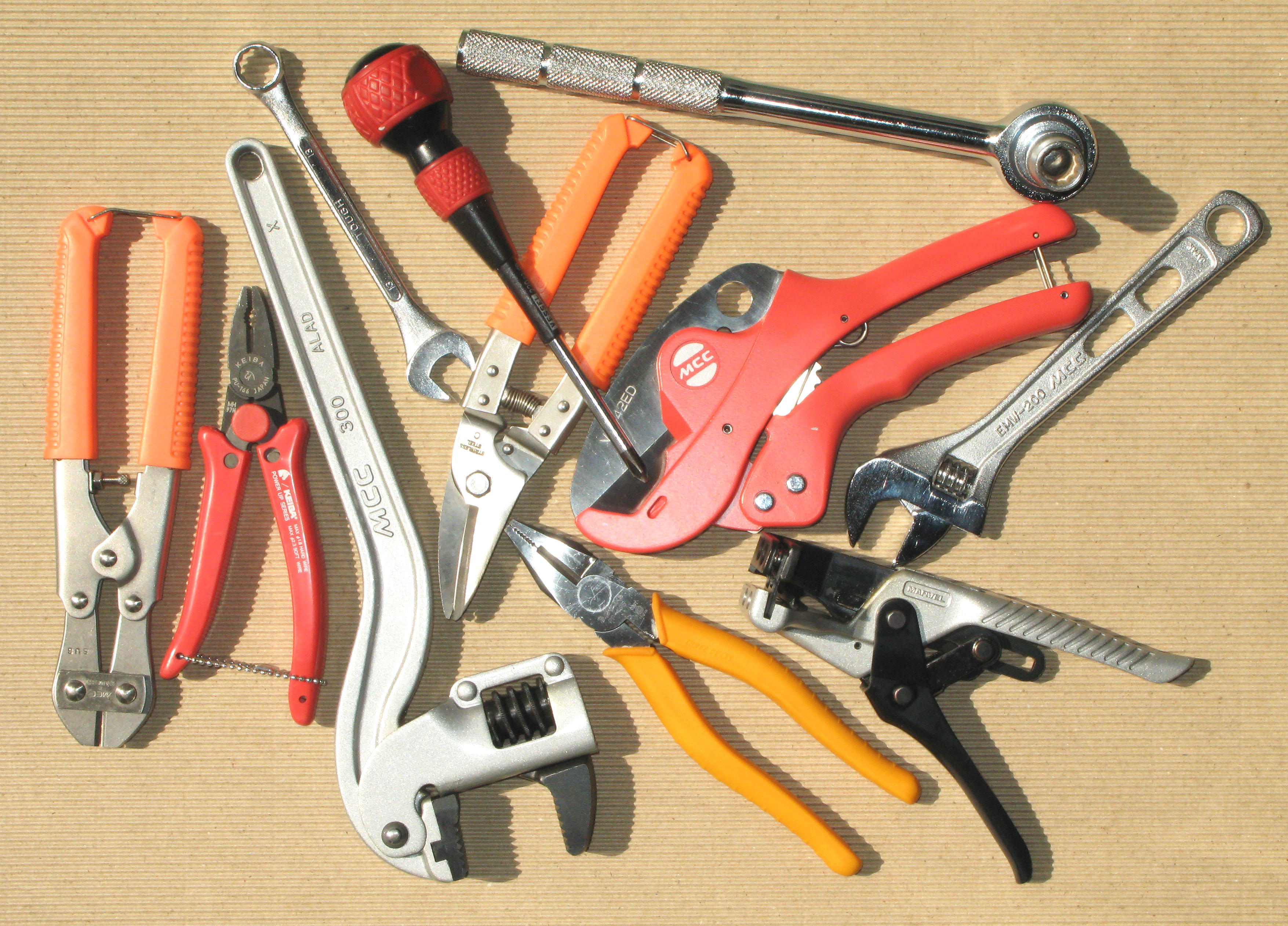 Cutters&wrenches&pliers&screwdrivers&strippers&etc. made in japan.